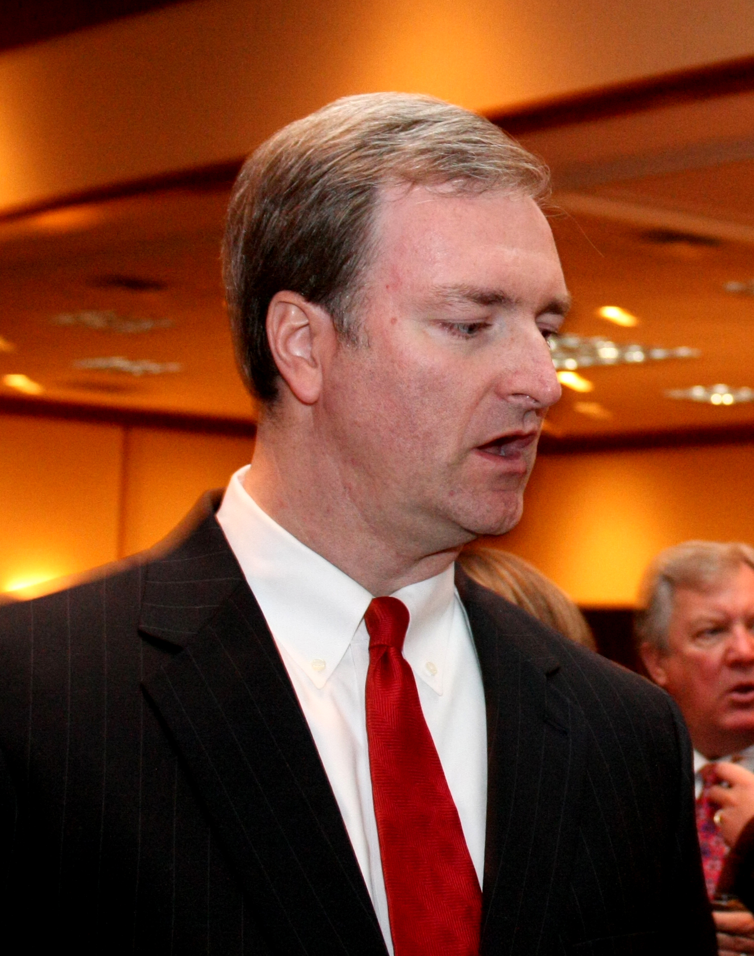 Trey Grayson, at an event in Hebron, Kentucky.